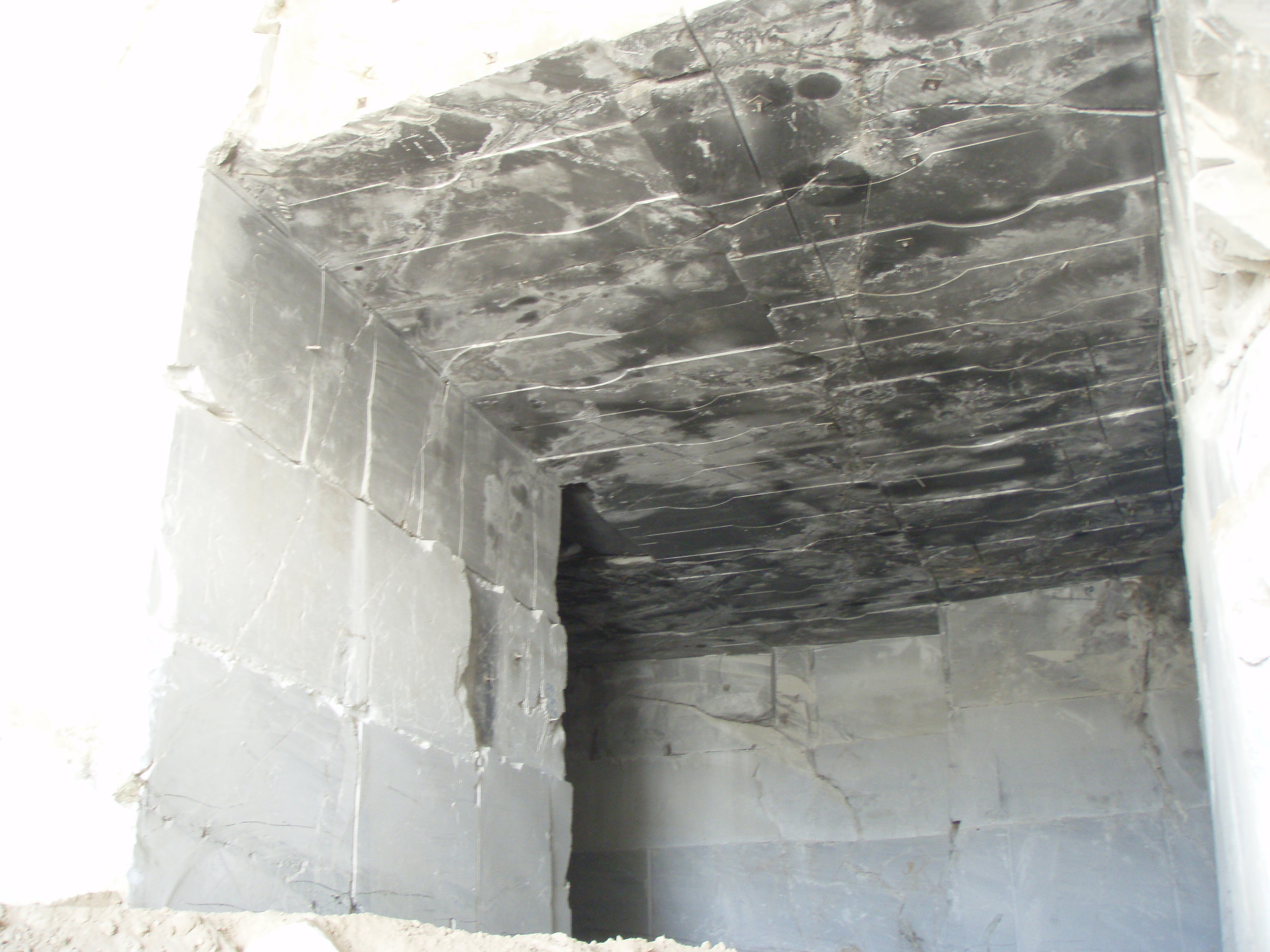 Underground Marble Quarry Dionnyssos Attica Greece